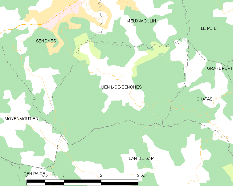 Map of French municipality Ménil-de-Senones